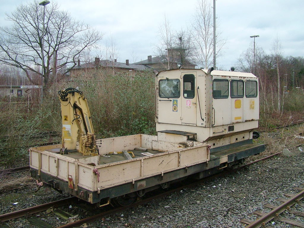 disused Track maintenance car Klv 54-0004 stabled at Hattingen (Ruhr) station